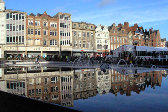 Long Row, Nottingham Ever since first seeing the Old Market Square in Nottingham (to me it will always be "Slab Square") I have been intrigued by this fantastic mix of buildings which make up its North side. Here seen reflected in one of the new water features in the square.